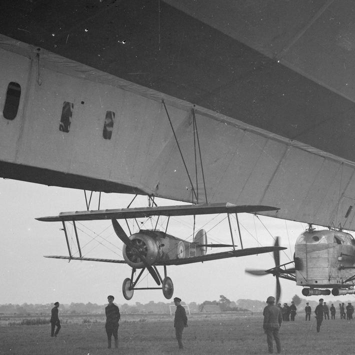 HMA R.23 airship with the underslung Sopwith Camel N6814.